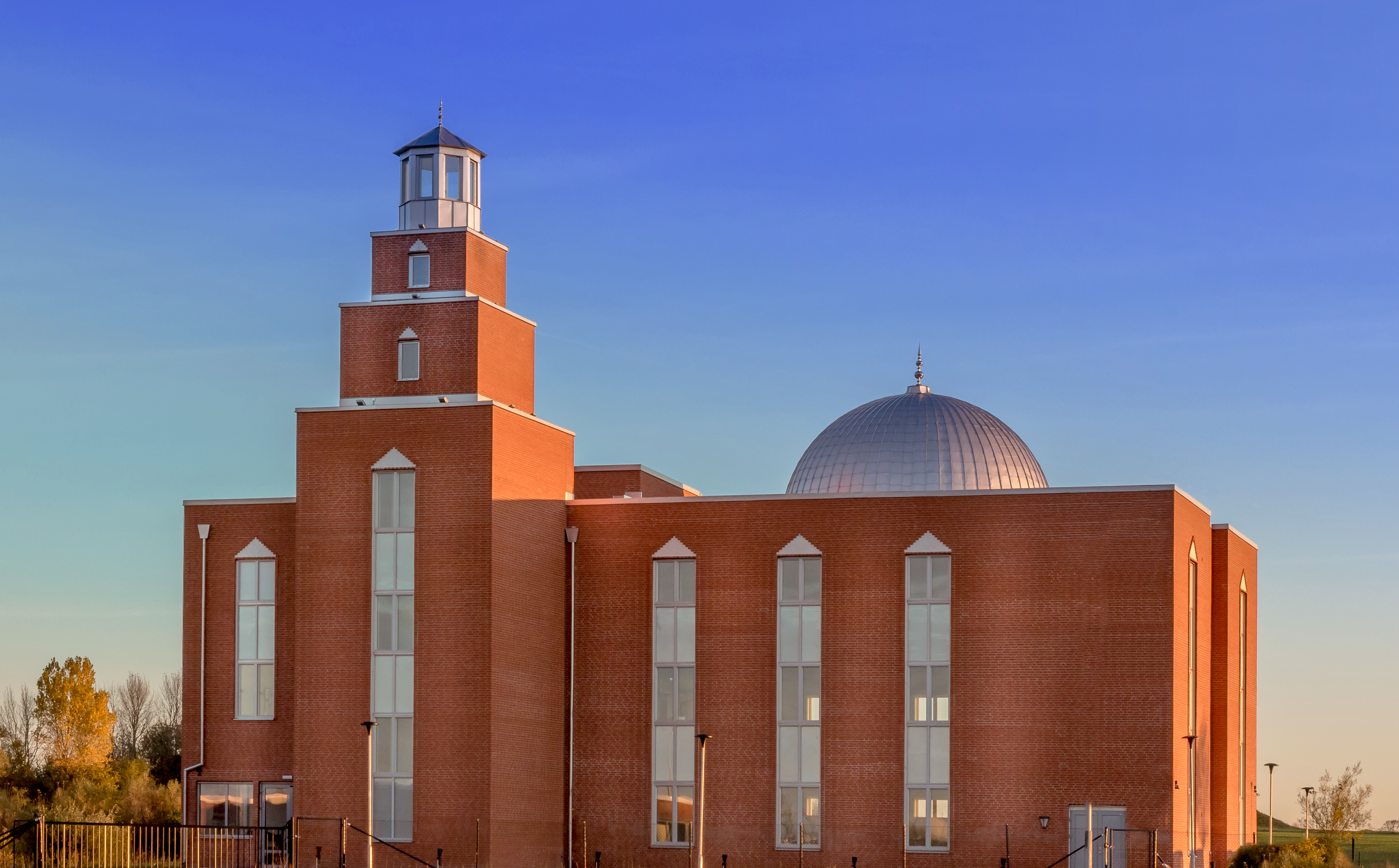 This is the second Ahmadiyya Mosque in Sweden, Mahmood Mosque located in Malmö.